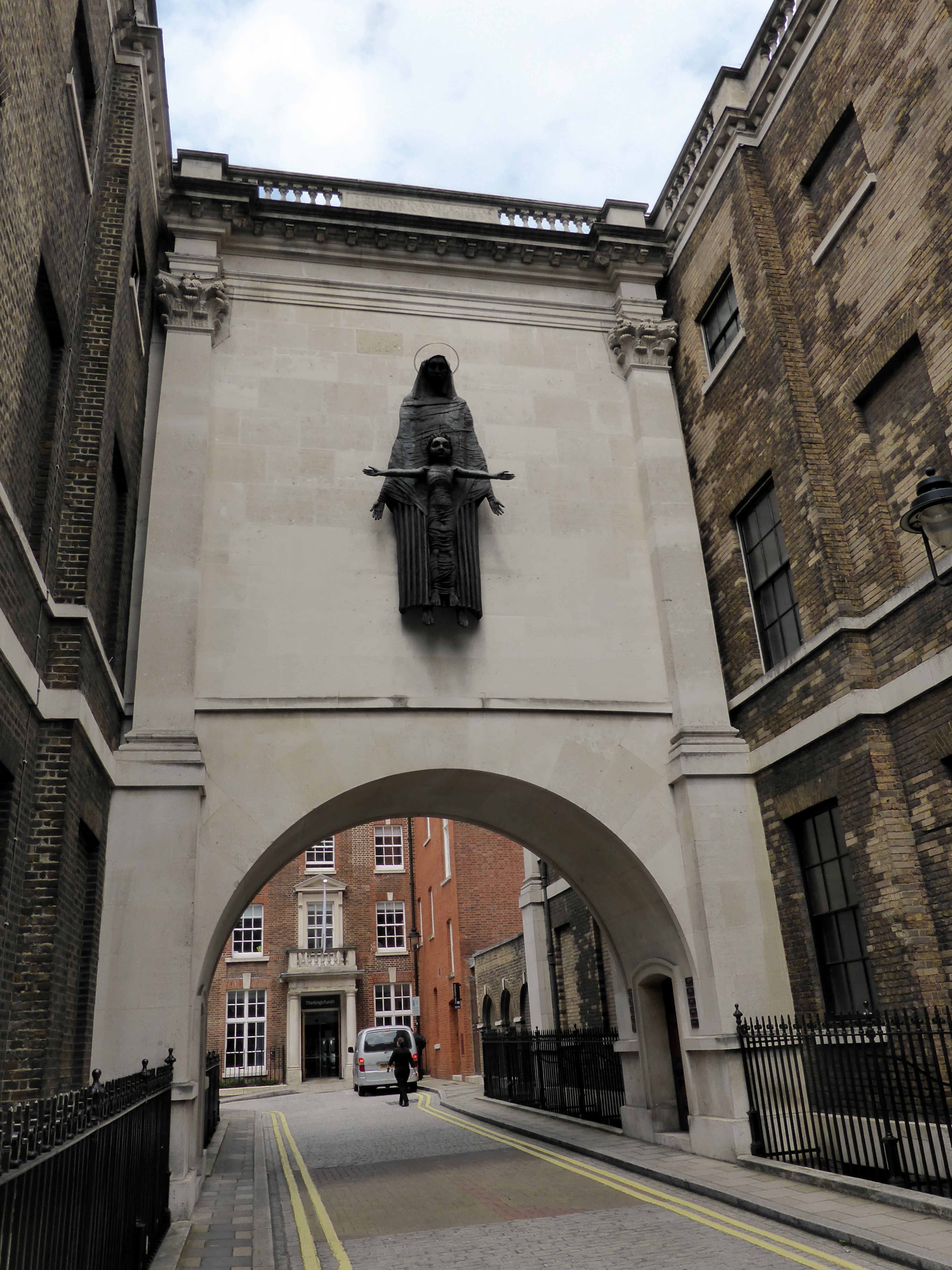 Jacob Epstein sculpture above Dean's Mews, London